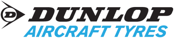 Logo of Dunlop Aircraft Tyres